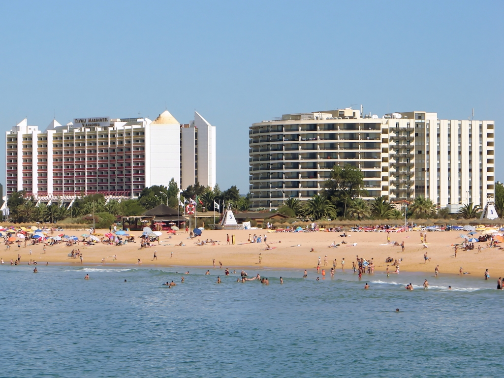 Praia de Vilamoura, Vilamoura, Algarve, Portugal.